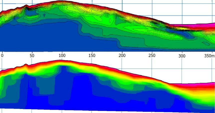 Differences betw. inversion of seismic refraction by SeisTomo software (upper) và SeisImager software (lower)